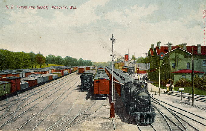 Portage WI